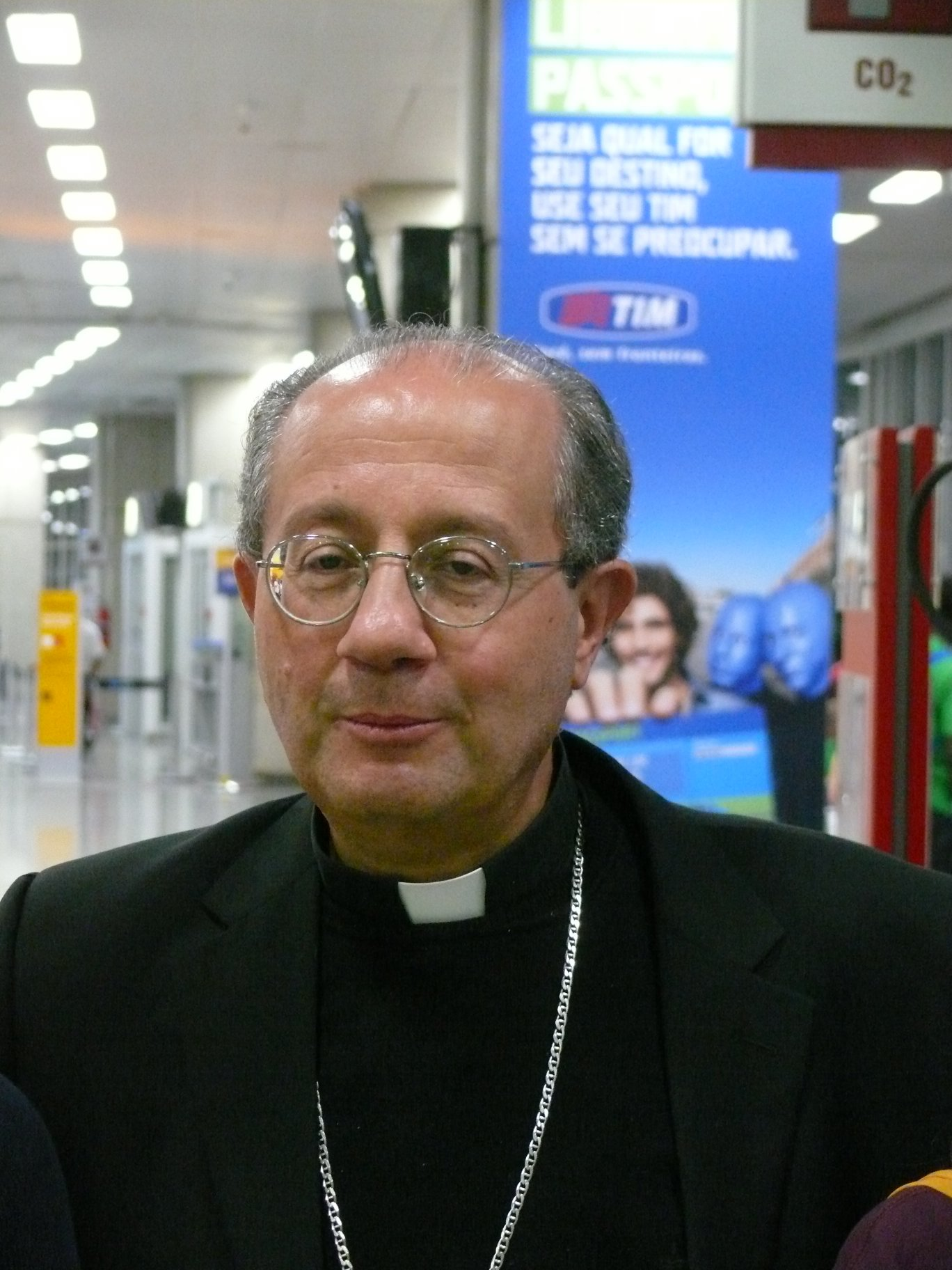 Archbishop Bruno Forte of Chieti-Vasto (Italy) during World Youth Day 2013 in Rio de Janeiro (Brazil).